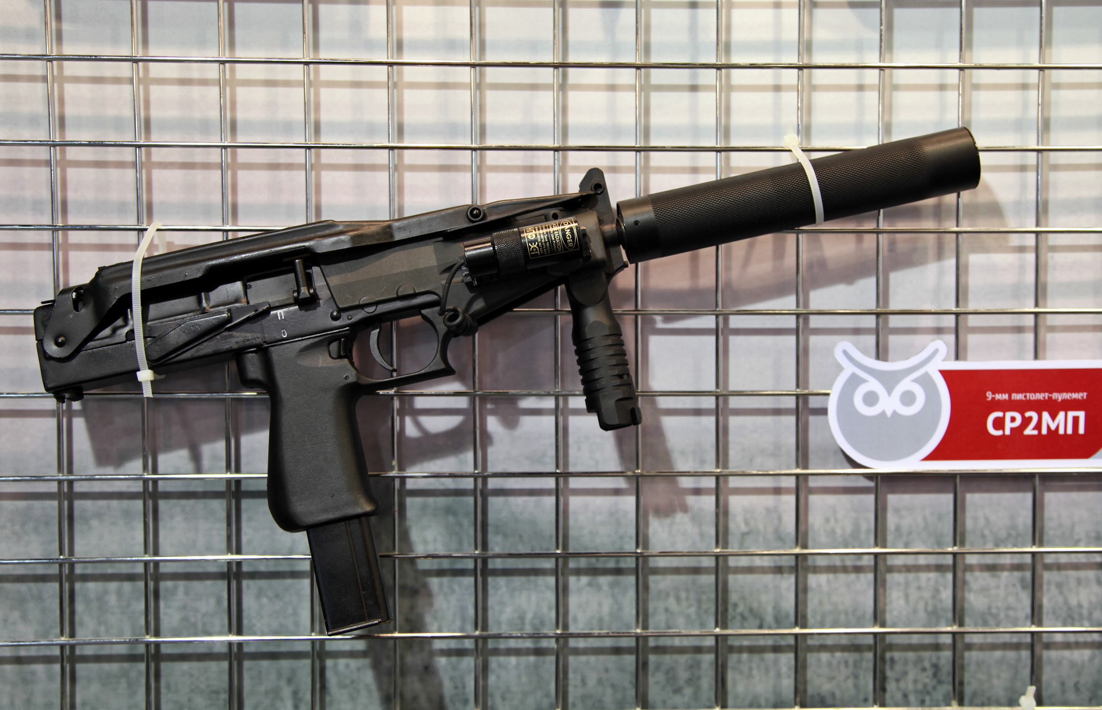 9mm SR2MP submachine-gun - Engineering Technologies-2012